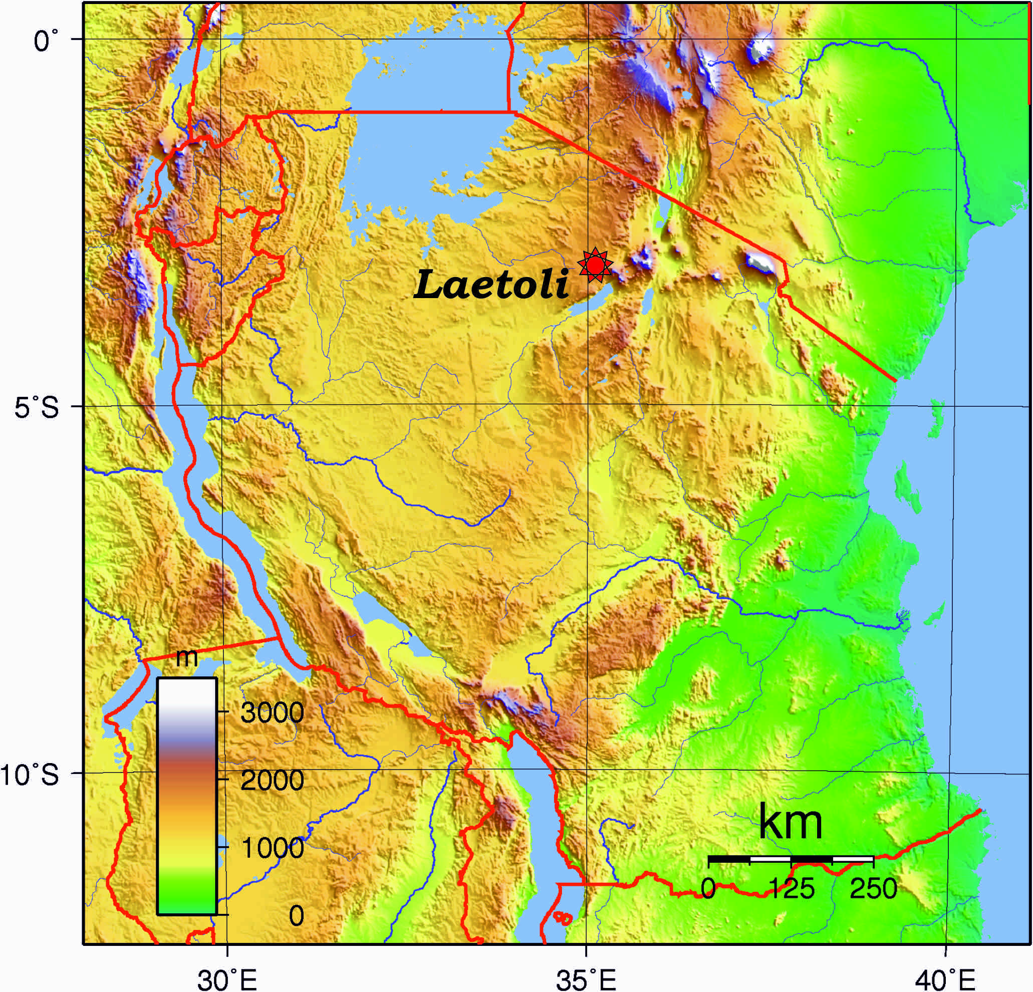 Laetoli paleoanthropological site, Tanzania. Australopithecus afarensis, 3,6 Ma